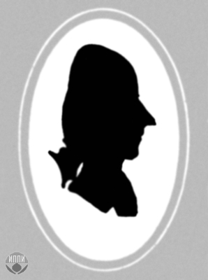 Golitsyn Dmitry Alexeevich